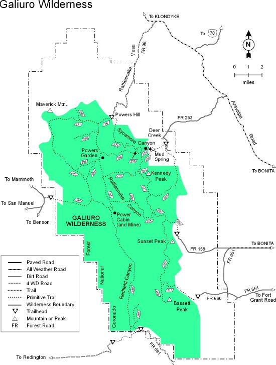 Map of Galiuro Wilderness in the Galiuro Mountains — Coronado National Forest of southeastern Arizona.